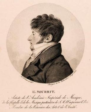 A portrait of the Occitan tenor Loís Noirit